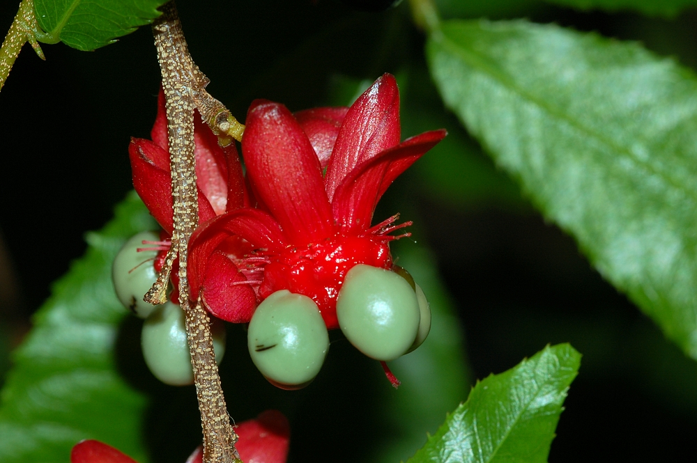 Ochna serrulata, Palmengarten, Frankfurt/Main, Germany